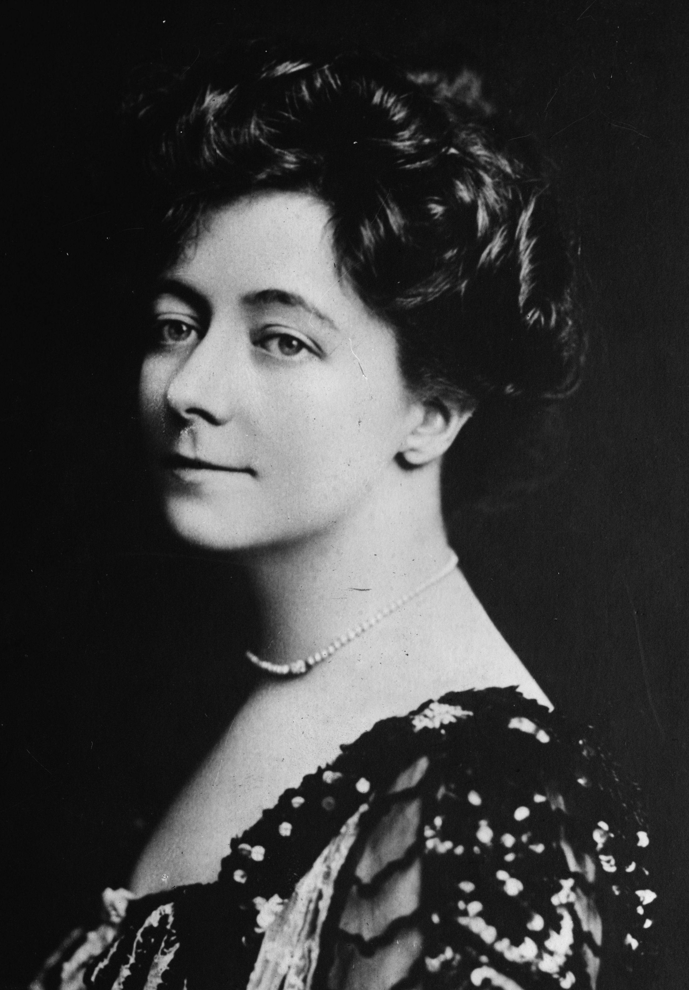 Scottish singer and vaudeville actress Cecilia Loftus (1876-1943)